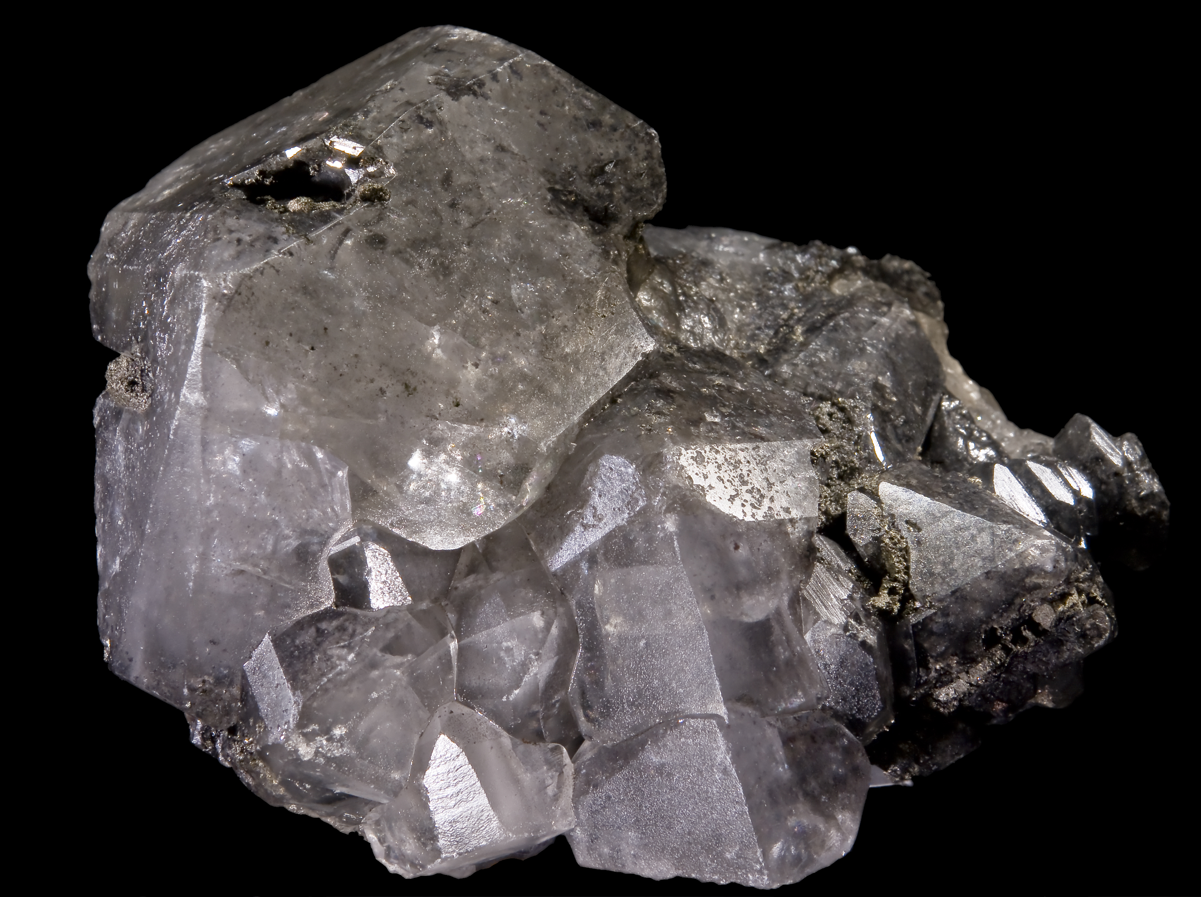 Anglesite - Touissit, Touissit District, Oujda-Angad Province, Oriental Region, Morocco - 5x4cm